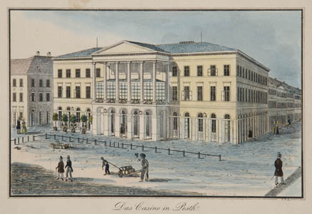 Property of the Kiscelli branch of the Budapest Historical Museum